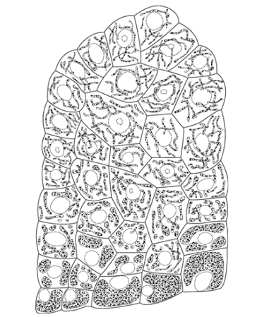 The development of the vacuoles from colloids to the actual vacuoles in rose petals